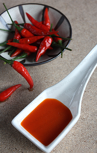 Chili sauce